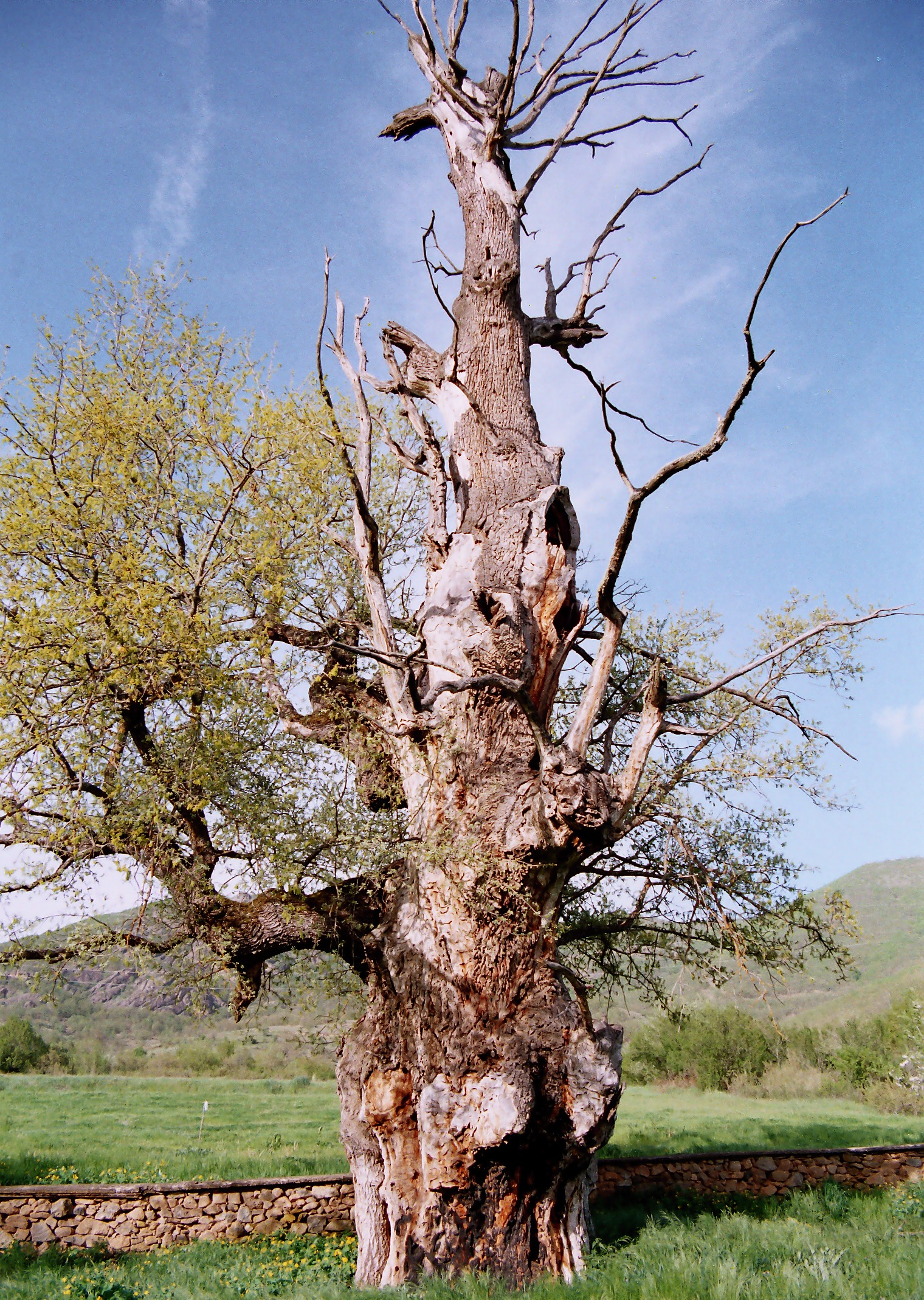 Prirodni_ubavini_(4).jpg